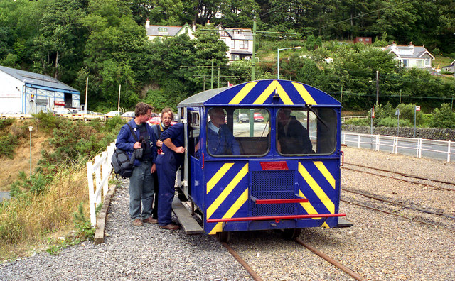 Wickham railcar at Laxey The Wickham railcar, which had been used on the Queens Pier Tramway at Ramsey, was giving free rides to Minorca and back, for those who wished to avail themselves of the facility. The excessive vibration of this unsprung vehicle when had to be experienced to be believed.